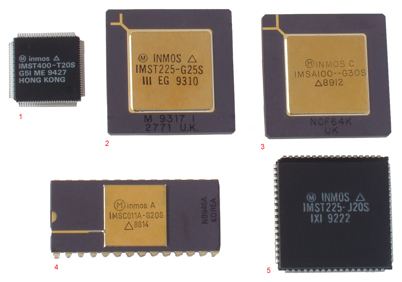 some INMOS Transputer and Peripherals